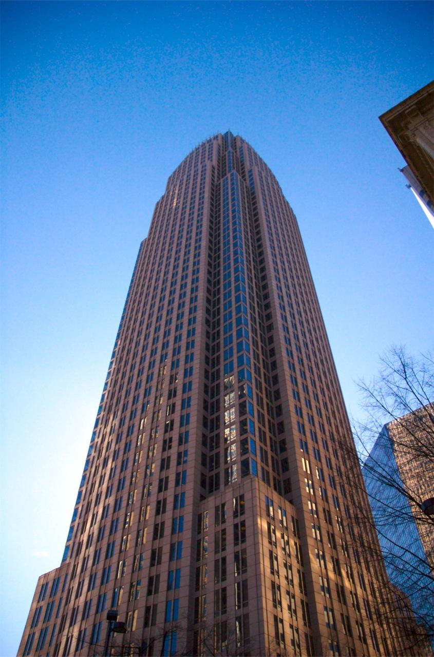 Bank of America Corporate Center in Charlotte, North Carolina